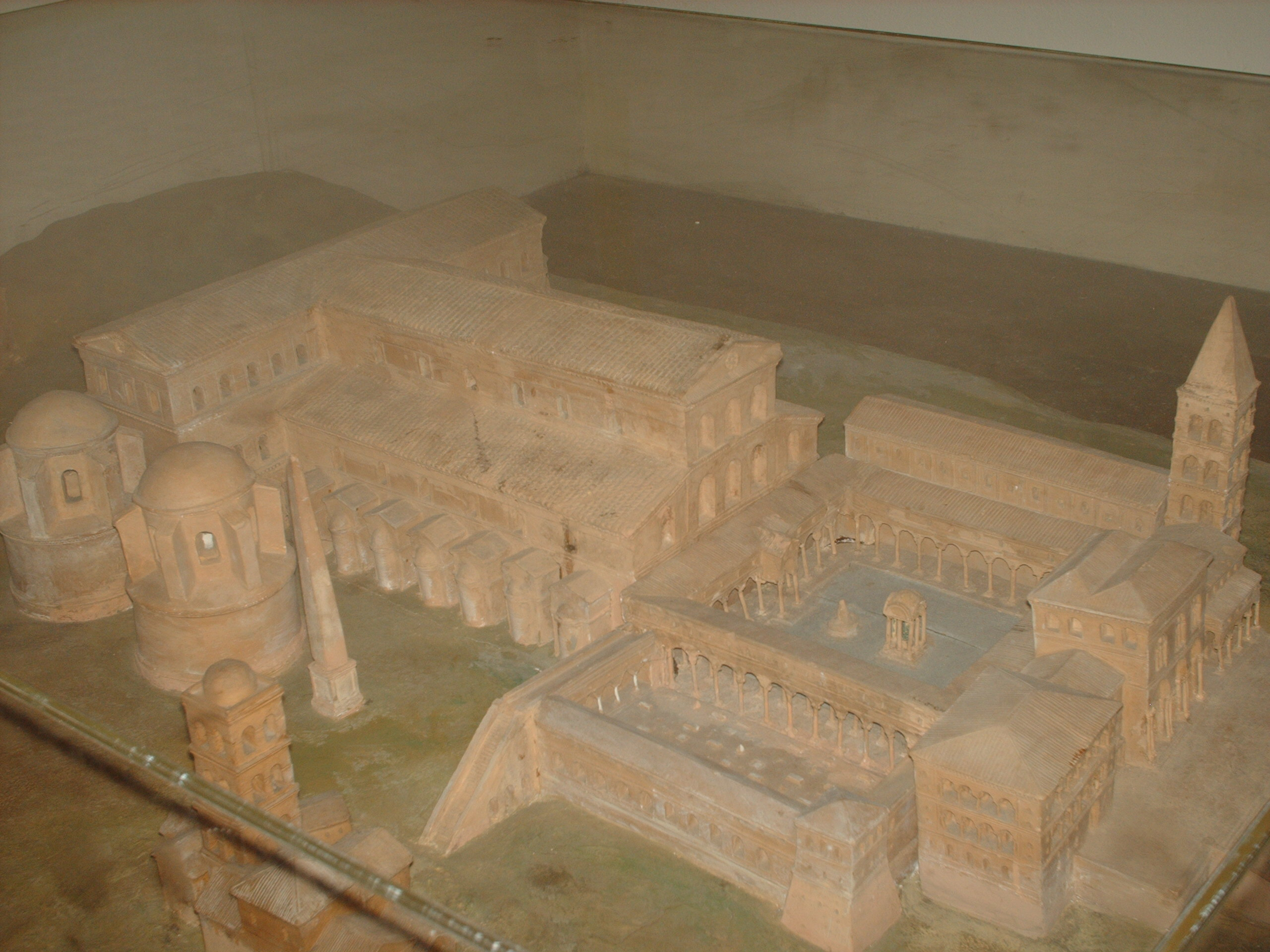 Model of costantinean Basilica di San Pietro in Vatican, found under the basilica, near the tombs of the popes.